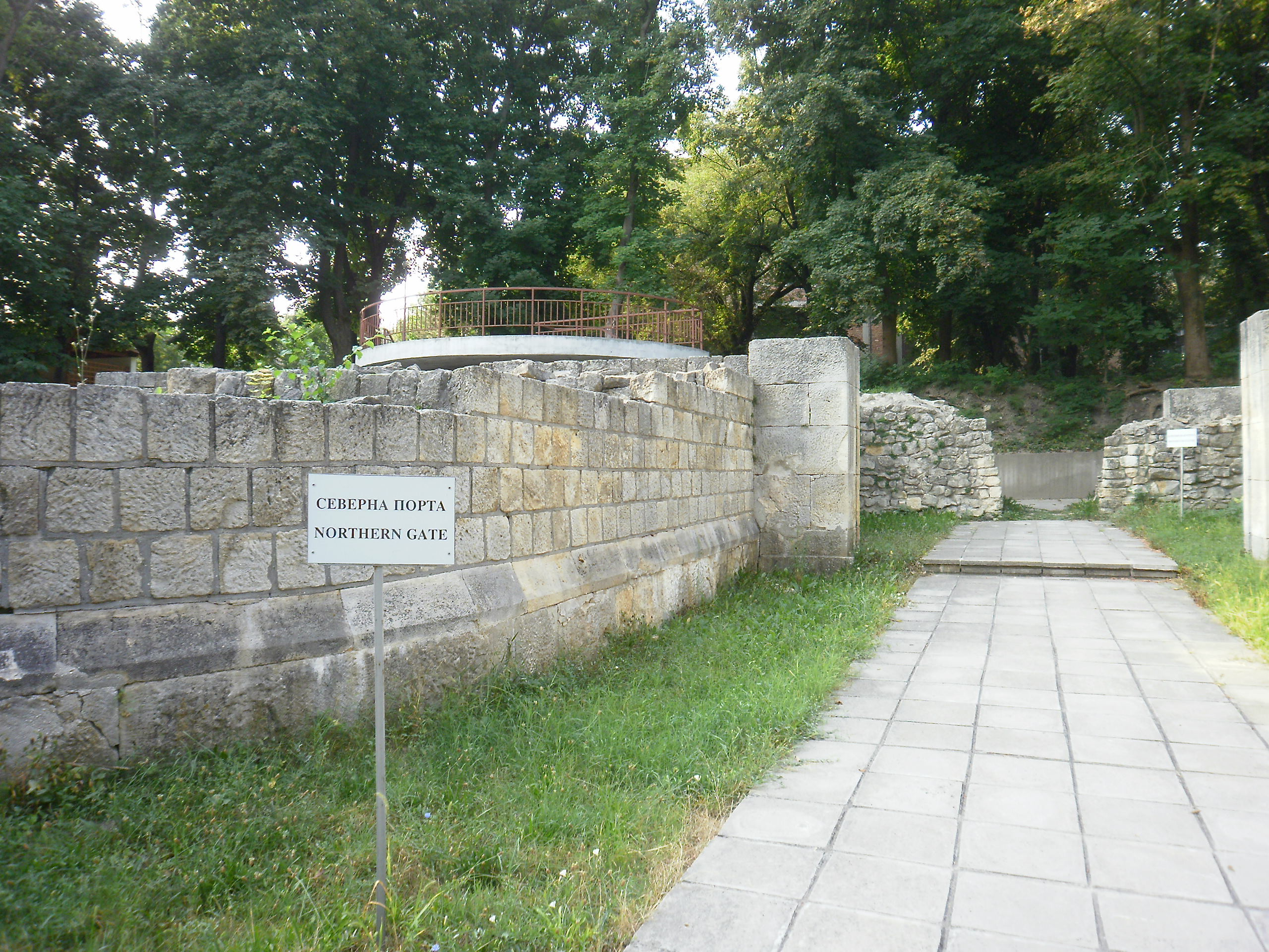 Abrittus, Razgrad, Bulgaria